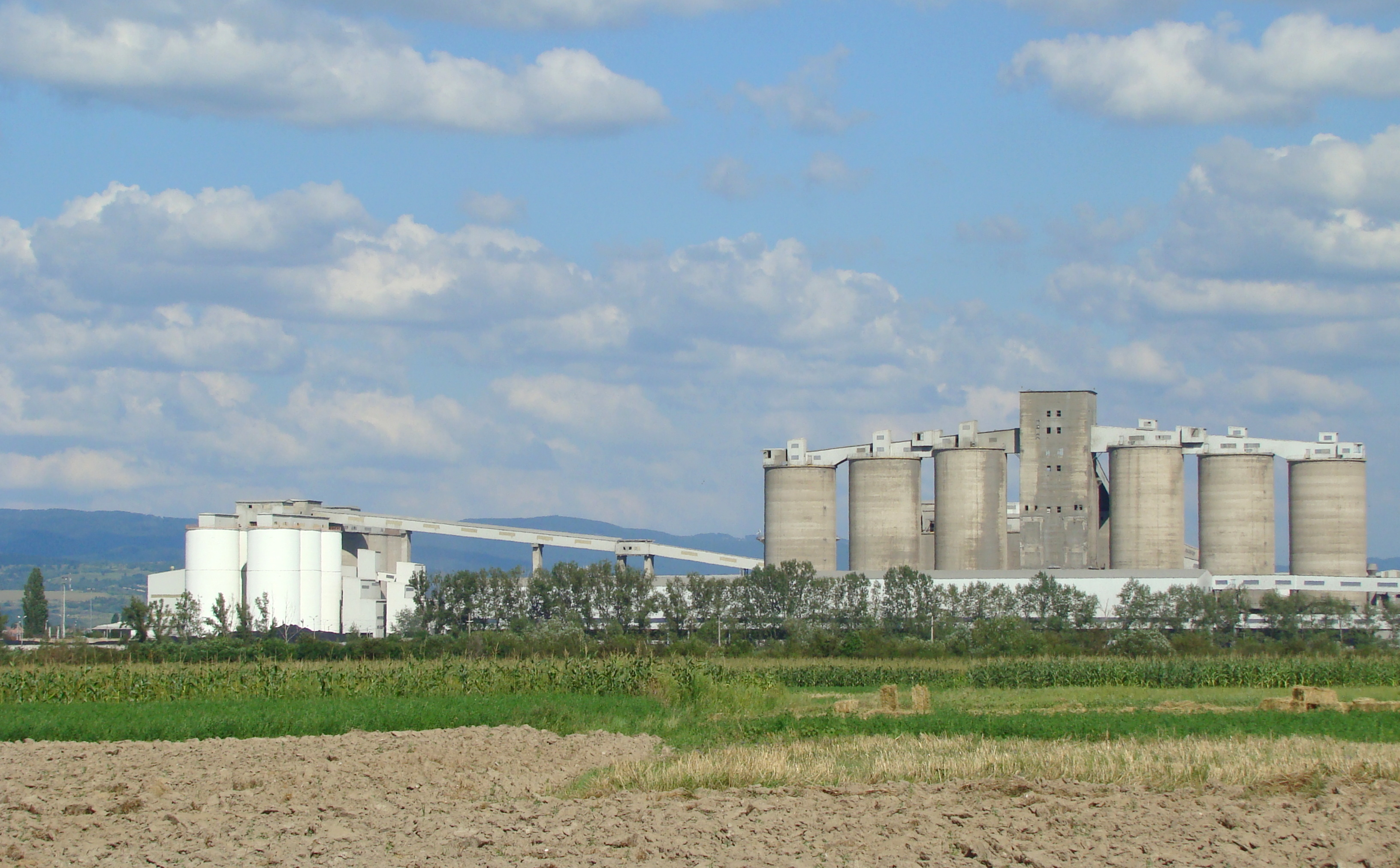 Holcim factory in Chistag (Aleşd), Bihor county, Romania